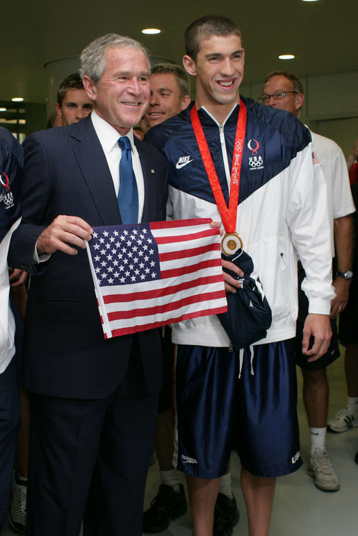 President George W. Bush poses for a photo with U.S. Olympic swimming gold medalist Michael Phelps during his visit Sunday, Aug. 10, 2008 to the National Aquatic Center in Beijing, where Phelps won his first Olympic gold medal in the men's 400 meter individual medley.